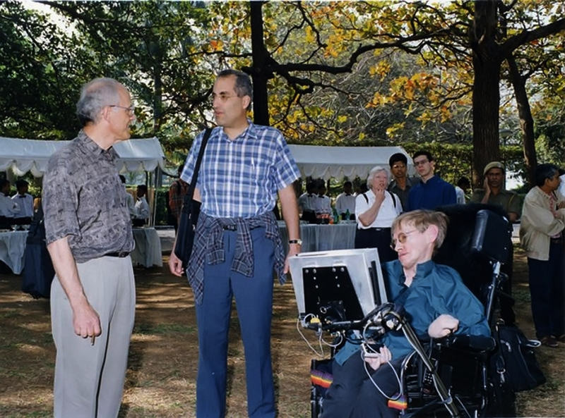 David Gross, Edward Witten and Stephen Hawking at the 2001 Strings Conference, TIFR, India